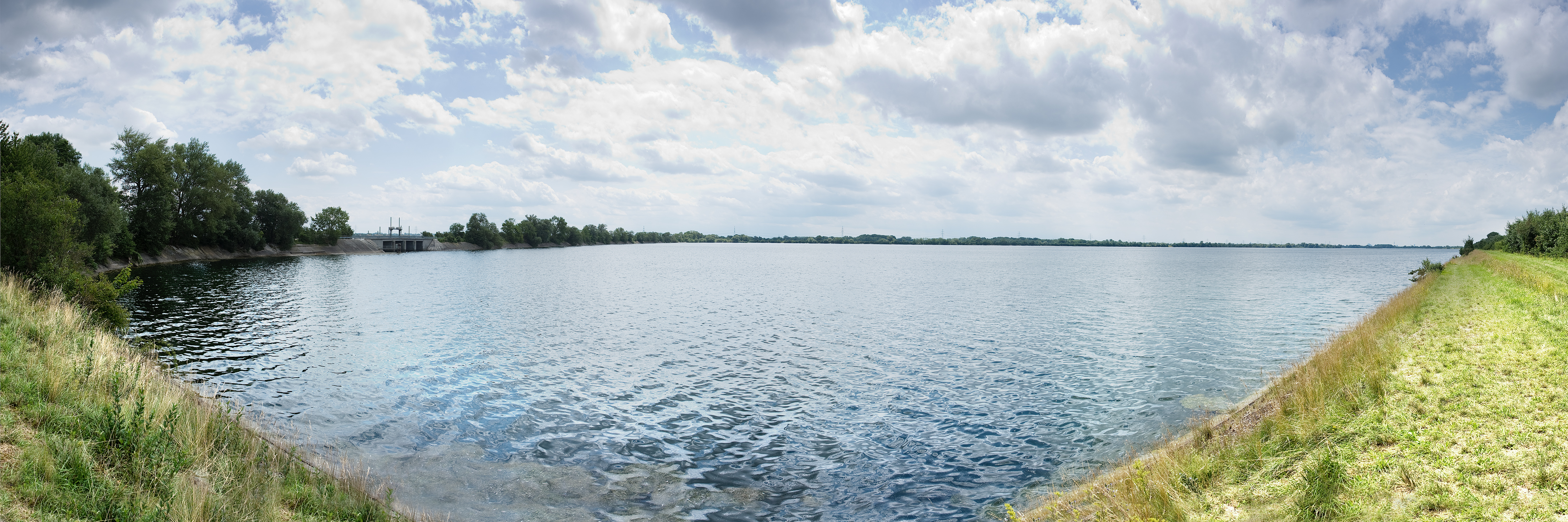 180 degree Panorama of the western part of Ismaninger Speichersee. The Ismaninger Speichersee is an artificial lake, northeast of Munich, between Ismaning and Neufinsing.